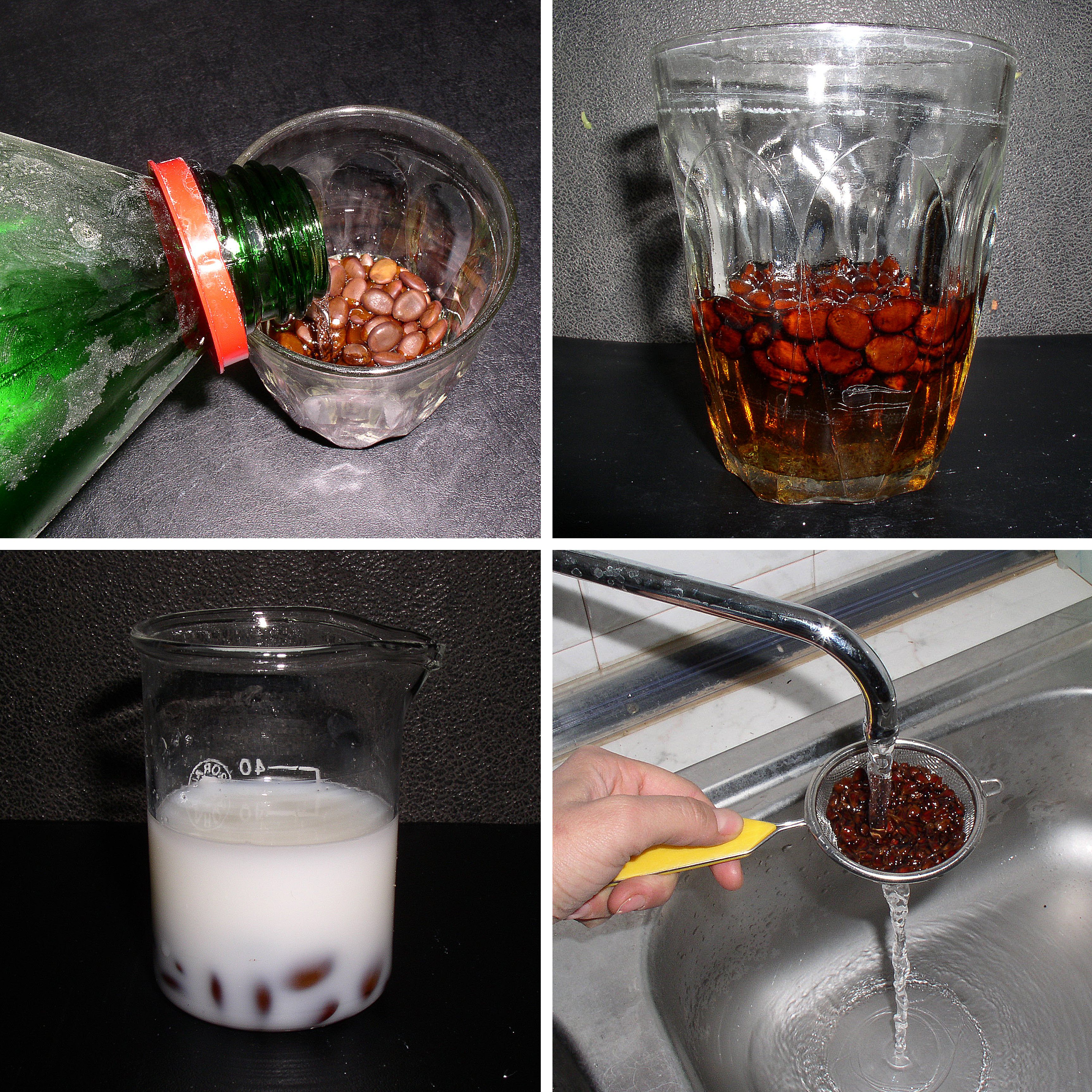 Chemical scarification of Gleditsia seeds